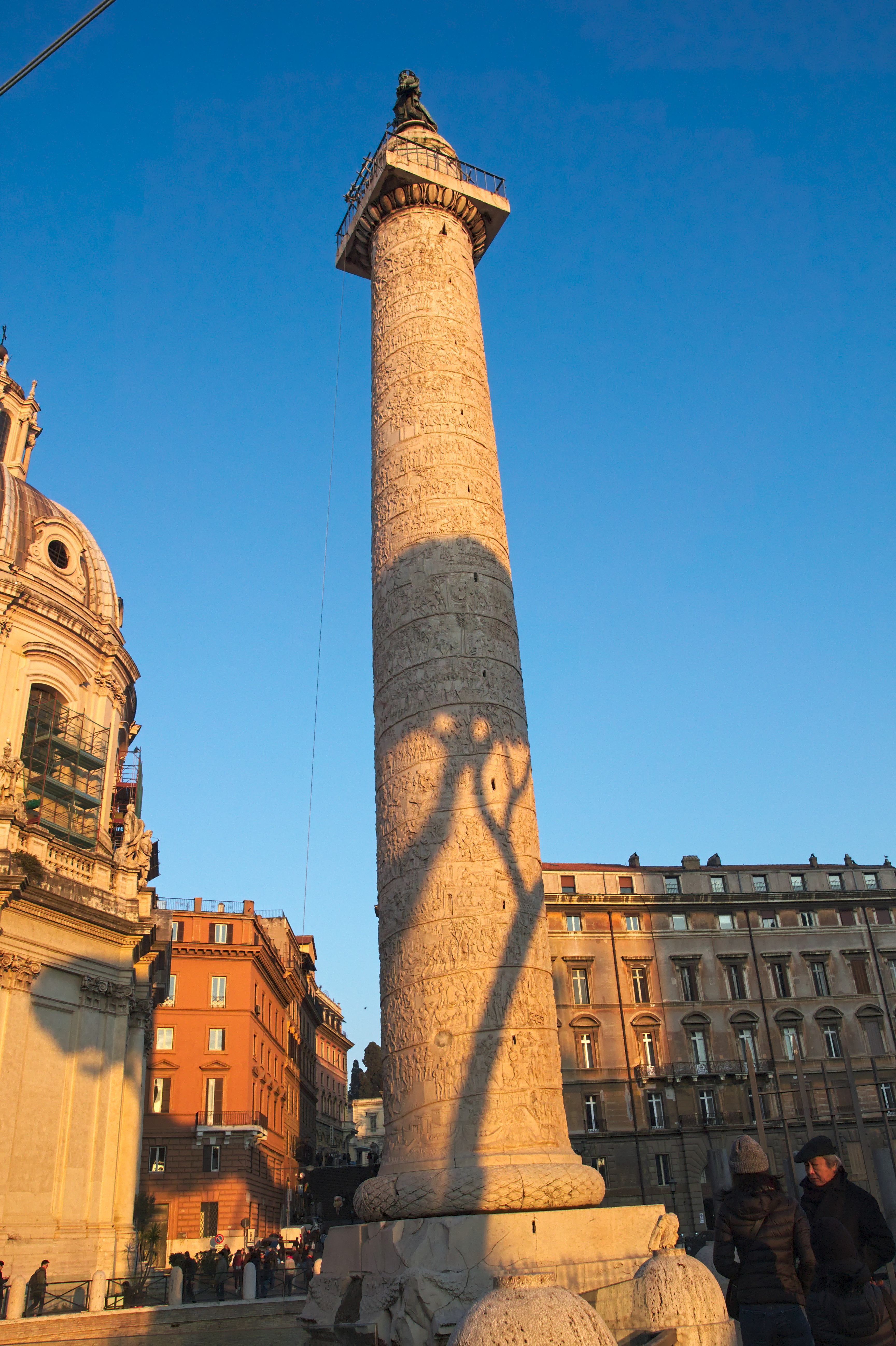 Trajan's Column in Rome, Italy.